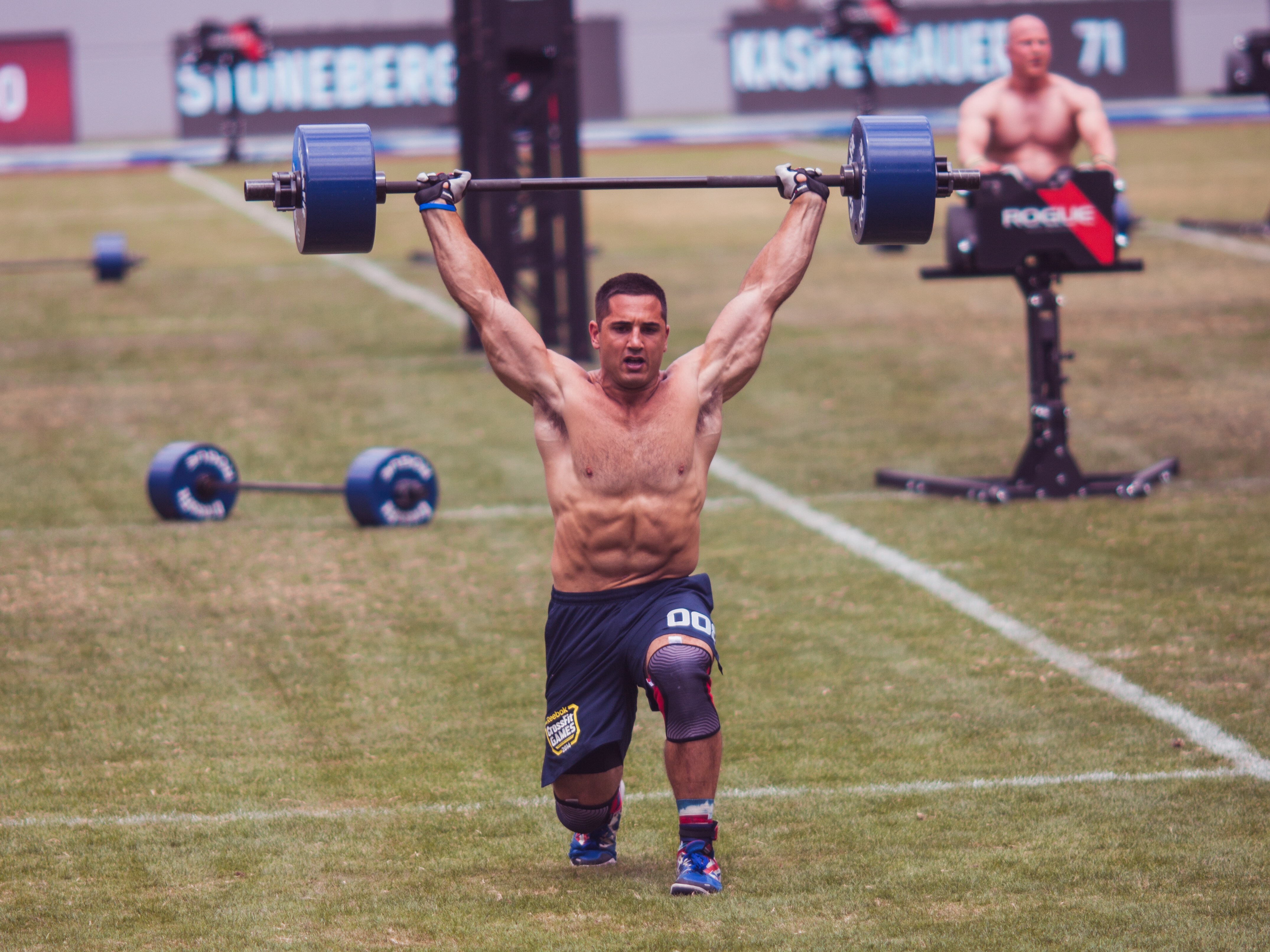 Jason Khalipa performing an Overhead Walking Lunge with 135lbs while competing at the 2014 Reebok CrossFit Games on July 23, 2014 in Carson, California.